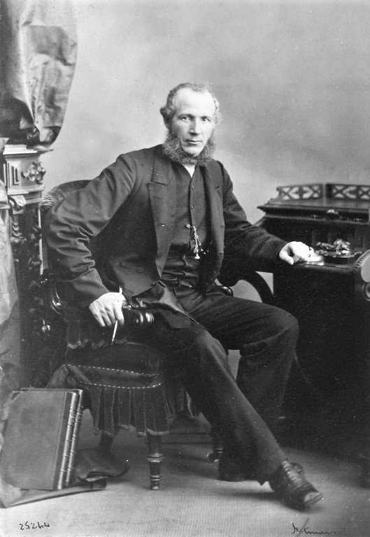 Photograph, Hugh McLennan, Montreal, QC, 1867, Silver salts on paper mounted on paper - Albumen process, 8.5 x 5.6 cm